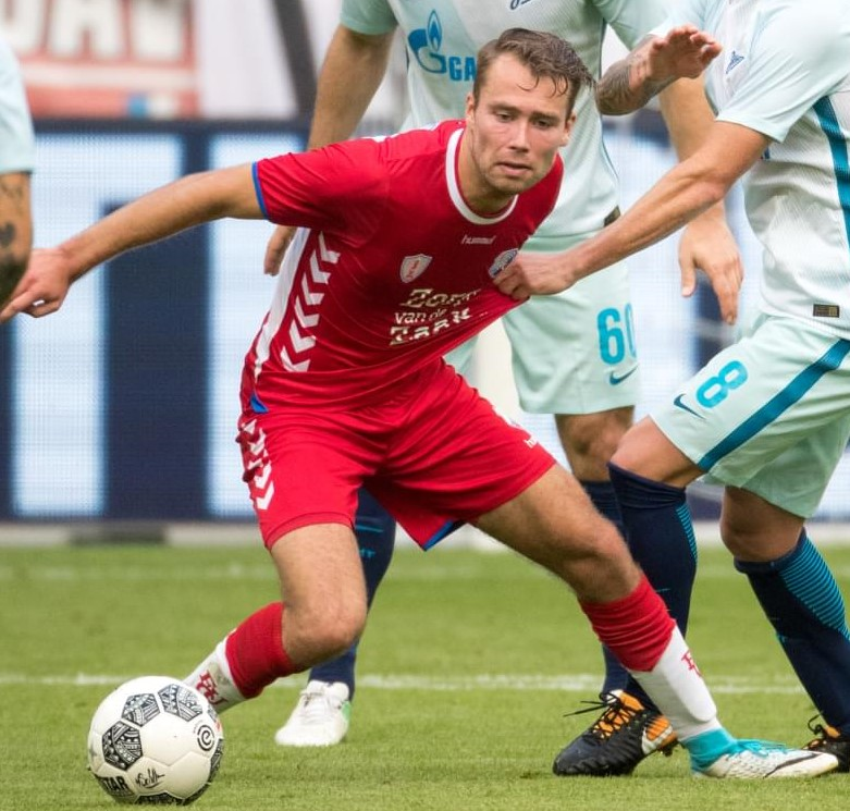 16.08.2017. Нидерланды, Утрехт, стадион «Галгенвард». Лига Европы УЕФА 2017/2018, 4-й квалификационный раунд, «Утрехт» — Зенит».